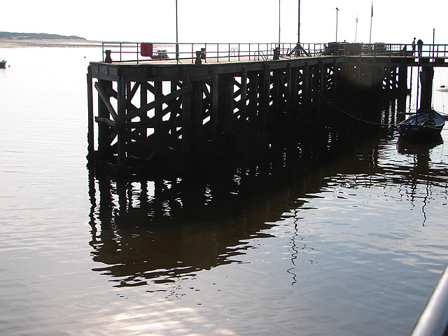 The Pier At Aberdyfi There was once a ferry service which ran from this pier to Ynyslas, across the estuary, which can just be seen in the top left corner of the shot.